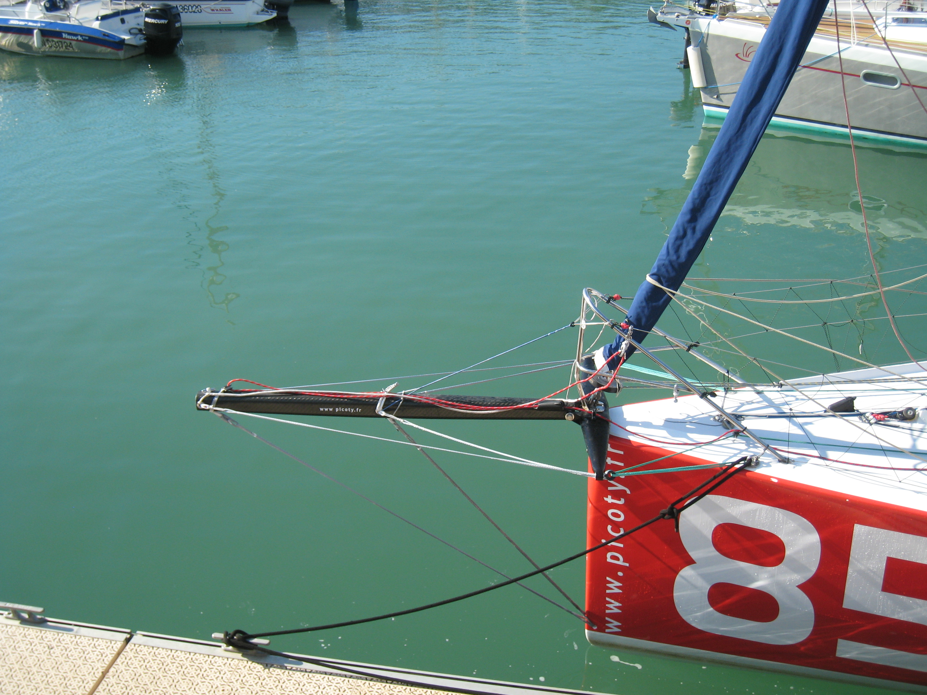 Retractable bowsprit from the Class'40 sailing yacht Picoty. Royan, France.